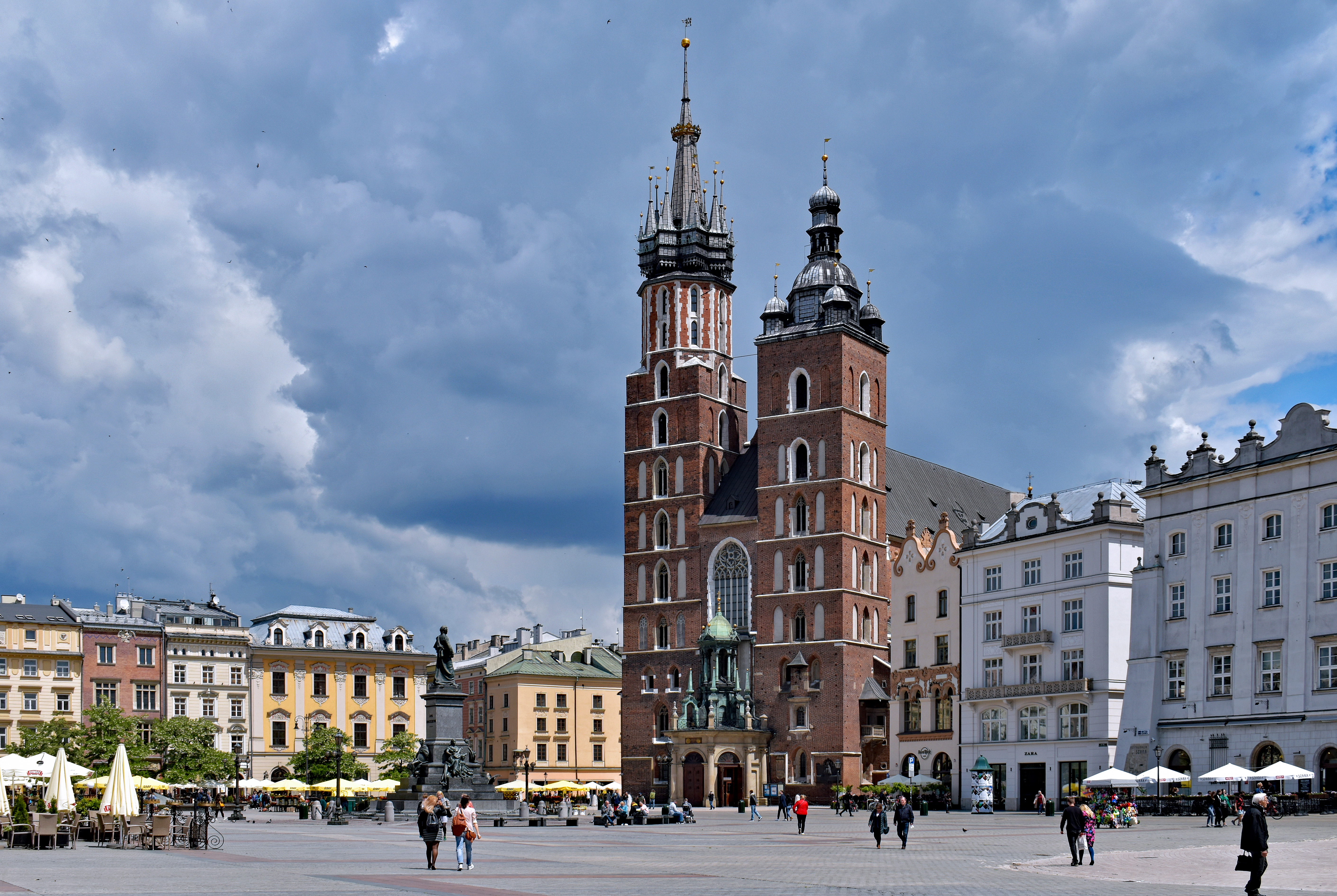 Church of Our Lady Assumed into Heaven, view from SW, 5 Mariacki square, Old Town, Kraków, Poland